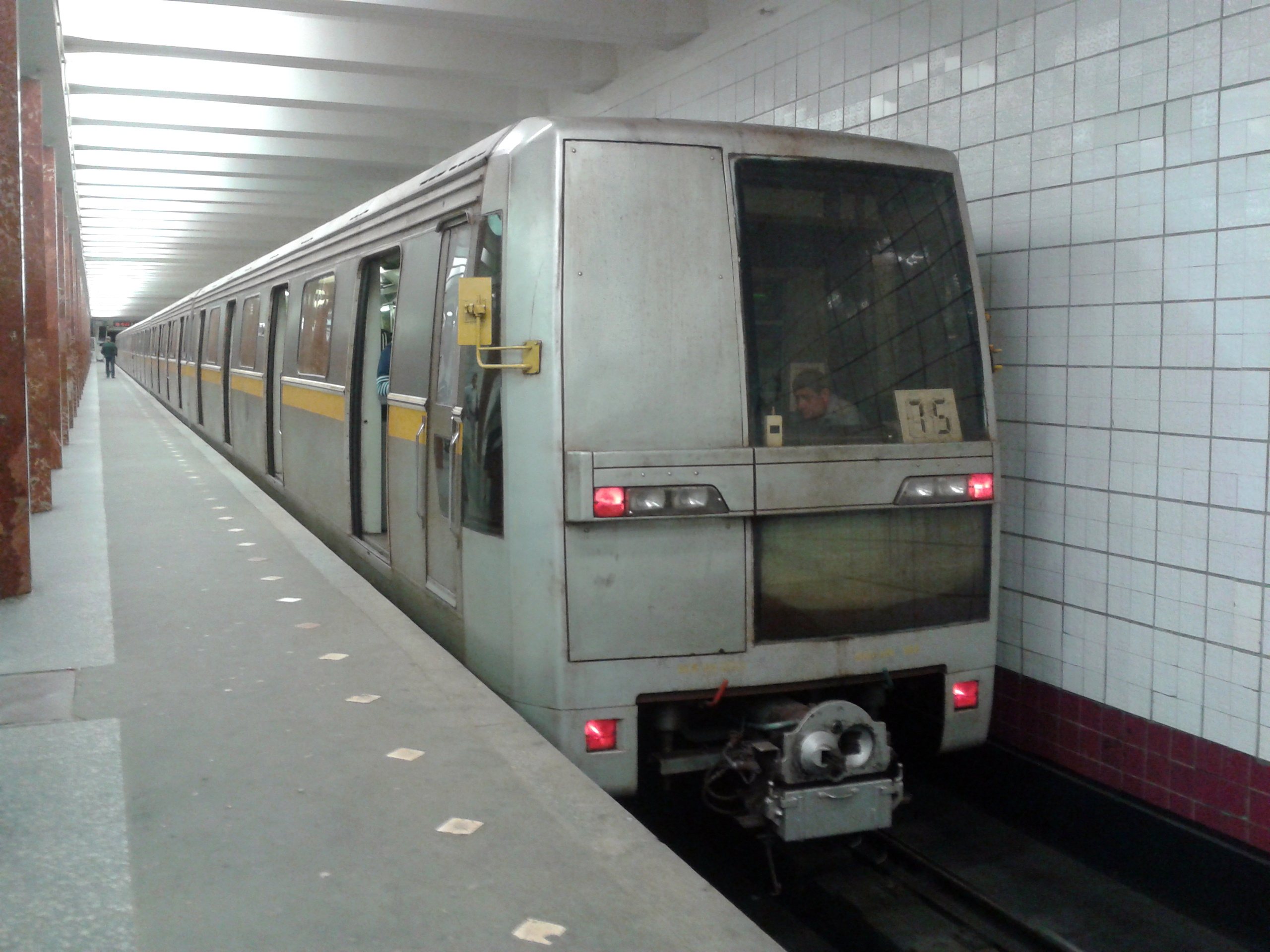 The rail wagon "Yauza". View from the tail of train, placed on "Kakhovskaya" subway station.